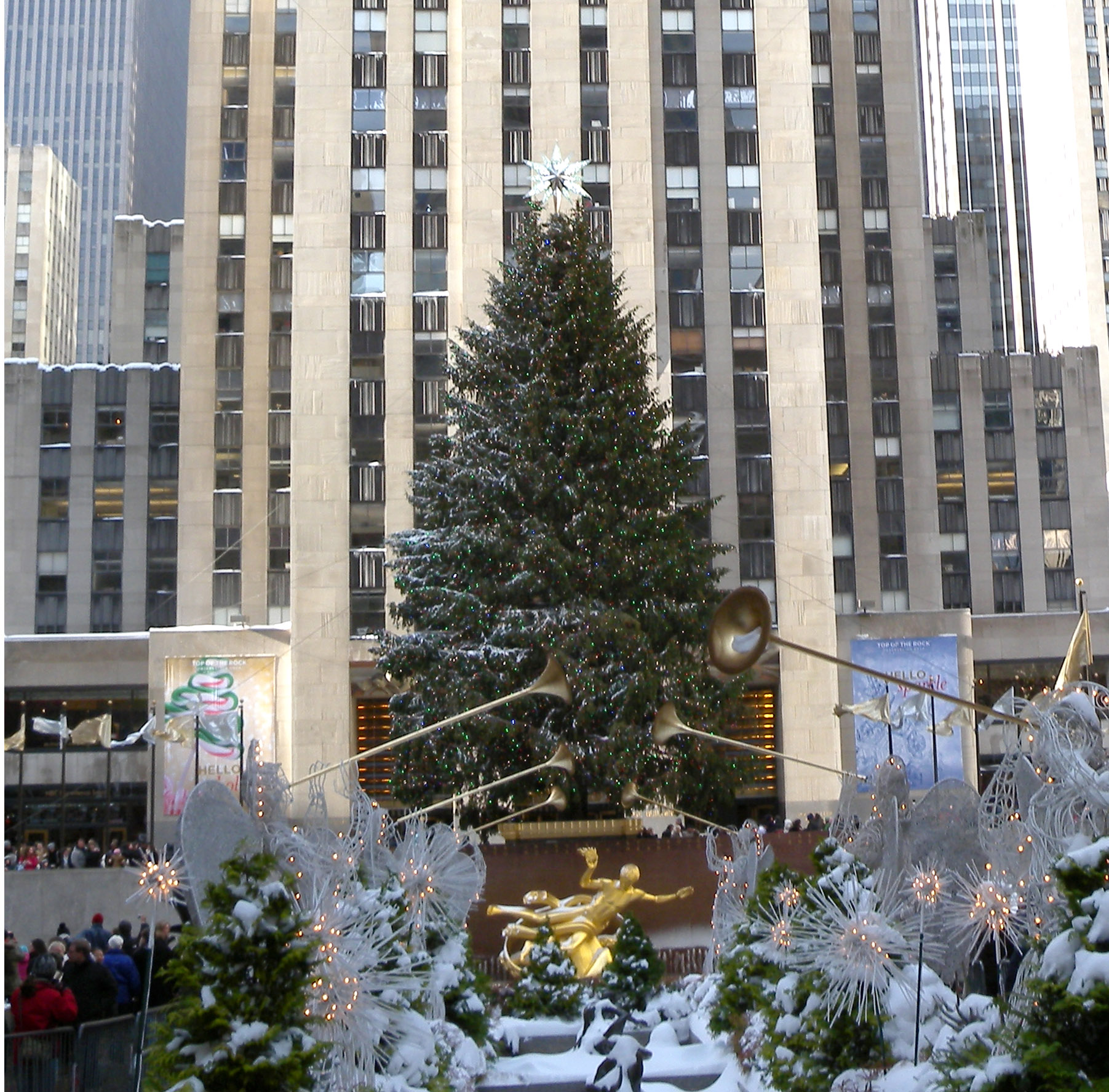 Looking west in Channel Garden at trumpets and tree after a snowfall.